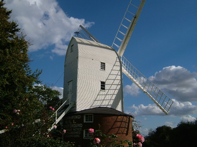 Photograph of Bocking windmill